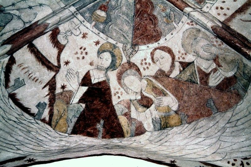 Frescos in Bellinge Kirke